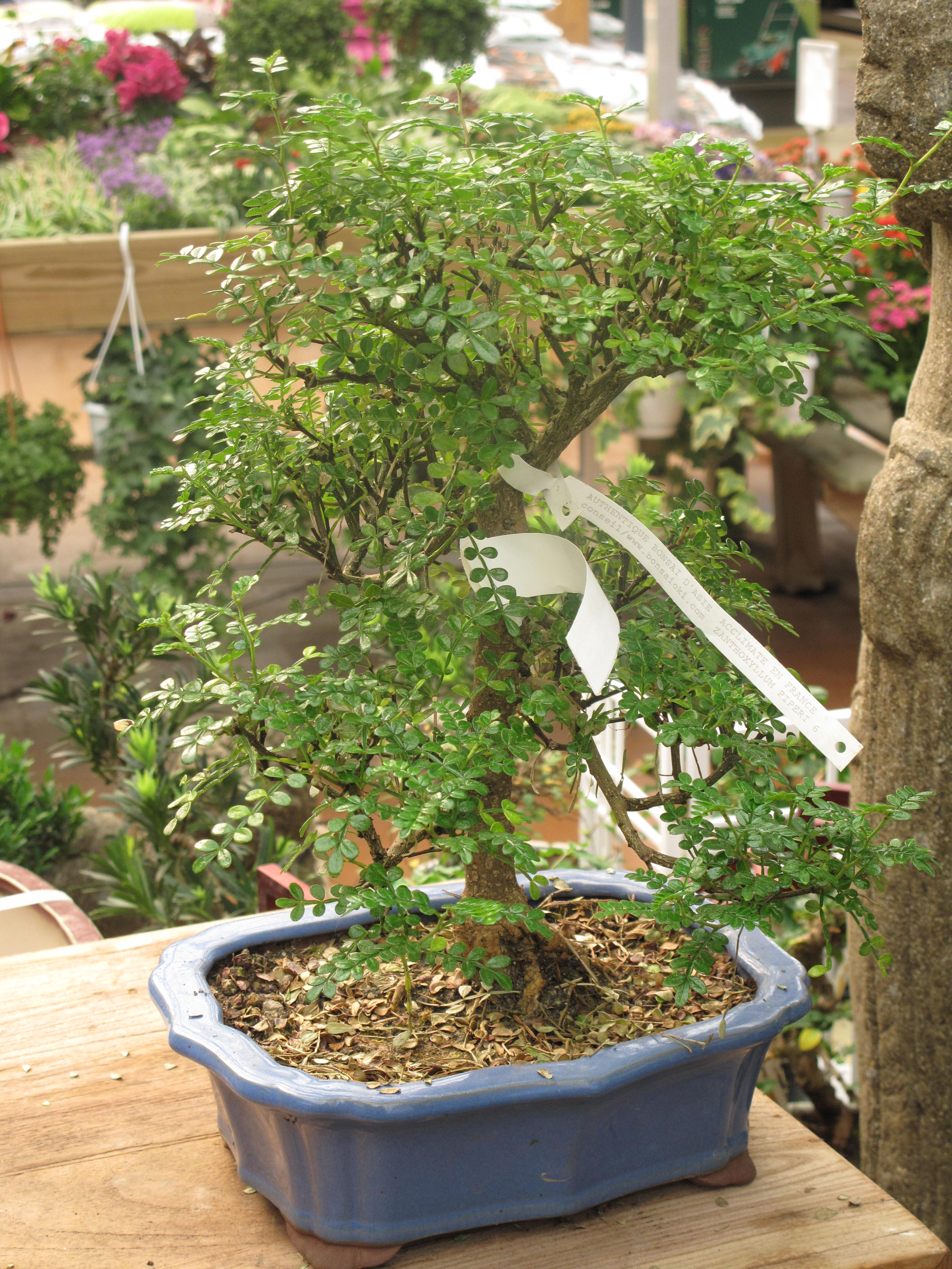 Zanthoxylum piperitum in a garden centre. Identified by its commercial botanic label.